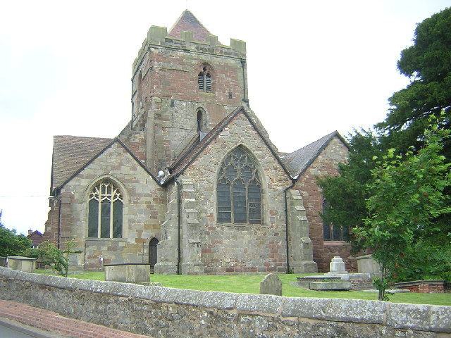 Wrockwardine Parish Church - St Peter's. Thought to be of Saxon origin, the church displays many architectural styles reflecting its long history.